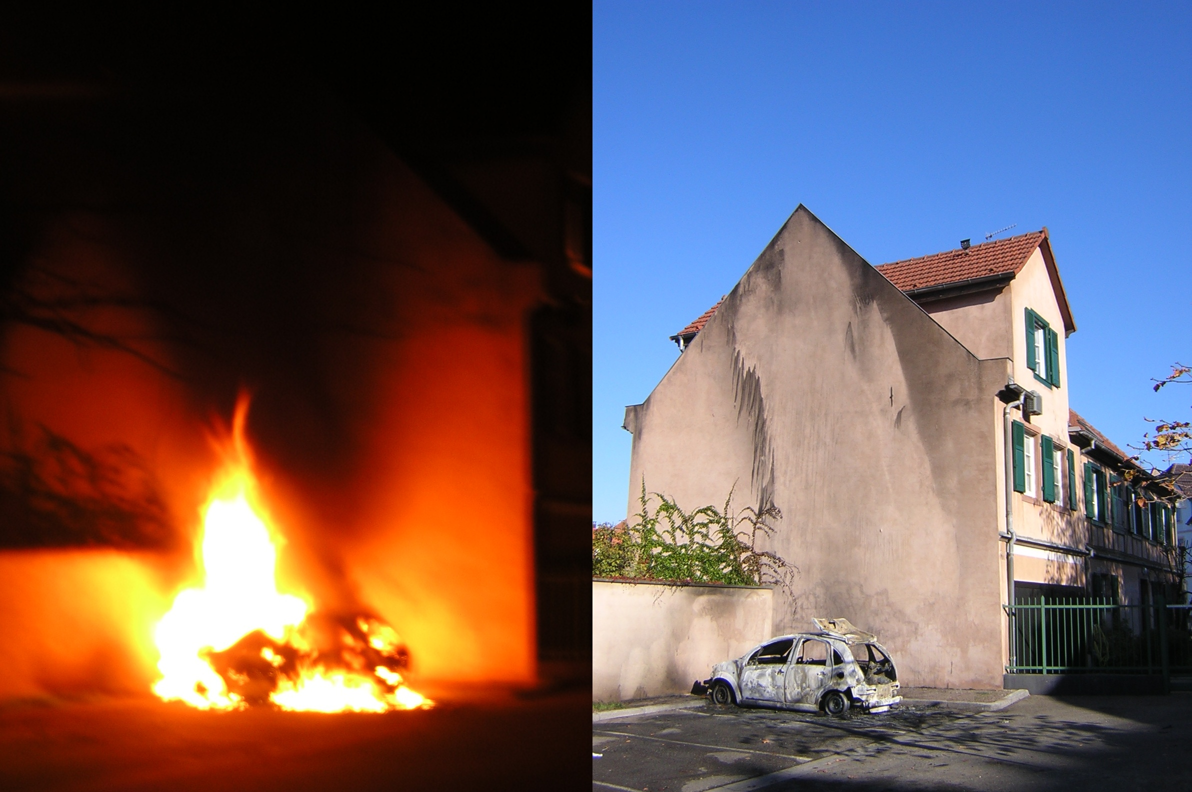 Burning car by night and the remains by day. Taken in Strasbourg, 6. November 2005, during the French Suburb Riots. By Francois Schnell (looks like a Citroen C3 - GClark 2006)